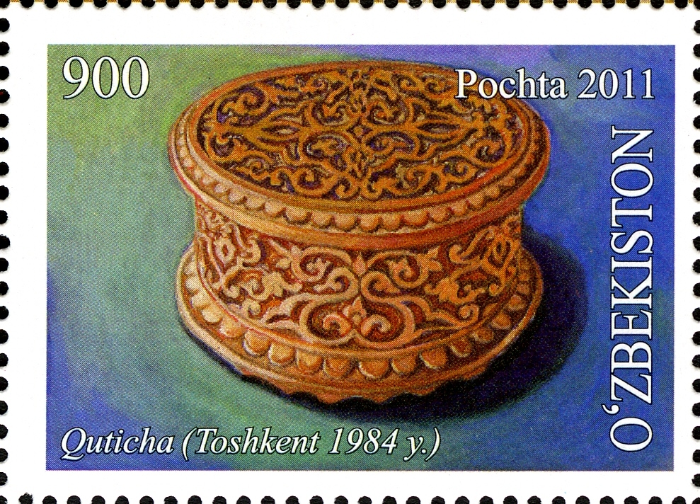 Stamps of Uzbekistan, 2011